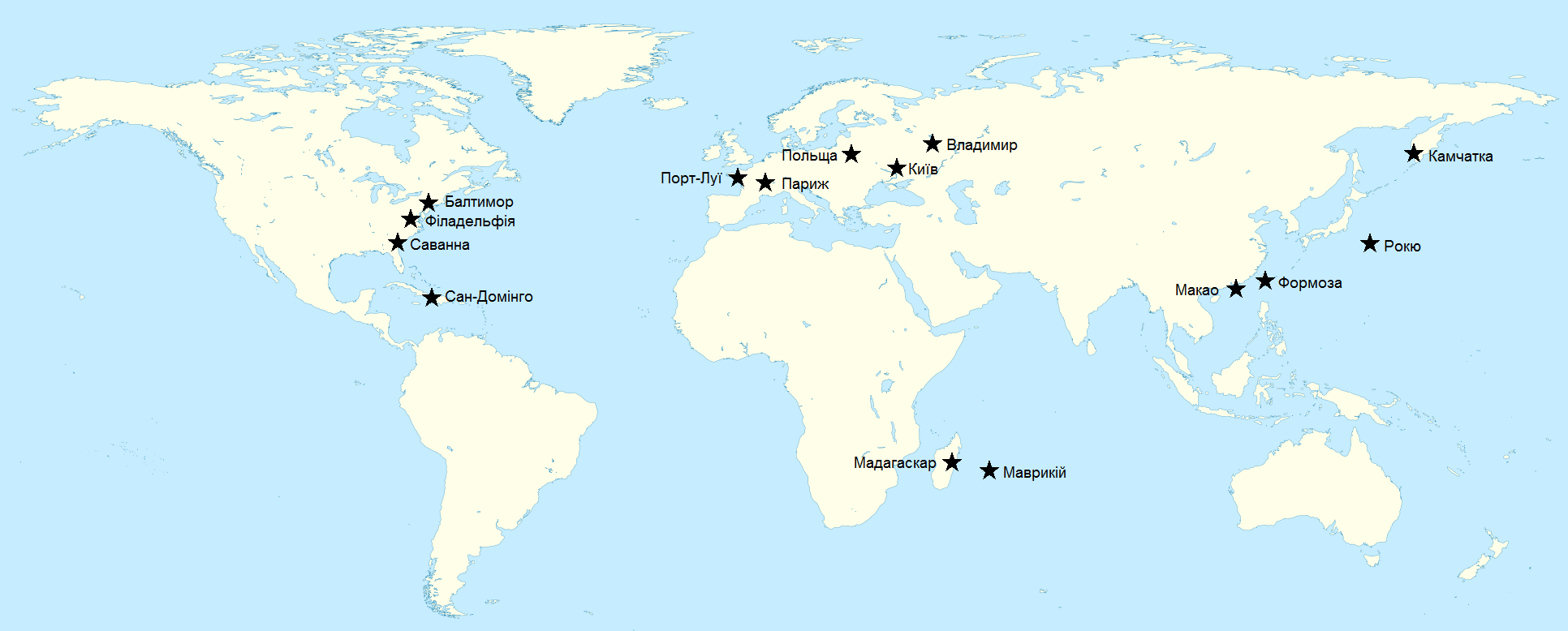 An equirectangular projection of the world, showing land outlines (resolution ~0.5 degrees). Created using a custom perl script ( rename to .pl) to convert wdb2 vector data (from into an SVG file (including combining segments into longer paths). Some tweaking was then done in Inkscape to fix up vector location errors, overlay/XOR paths, then colour as suggested in